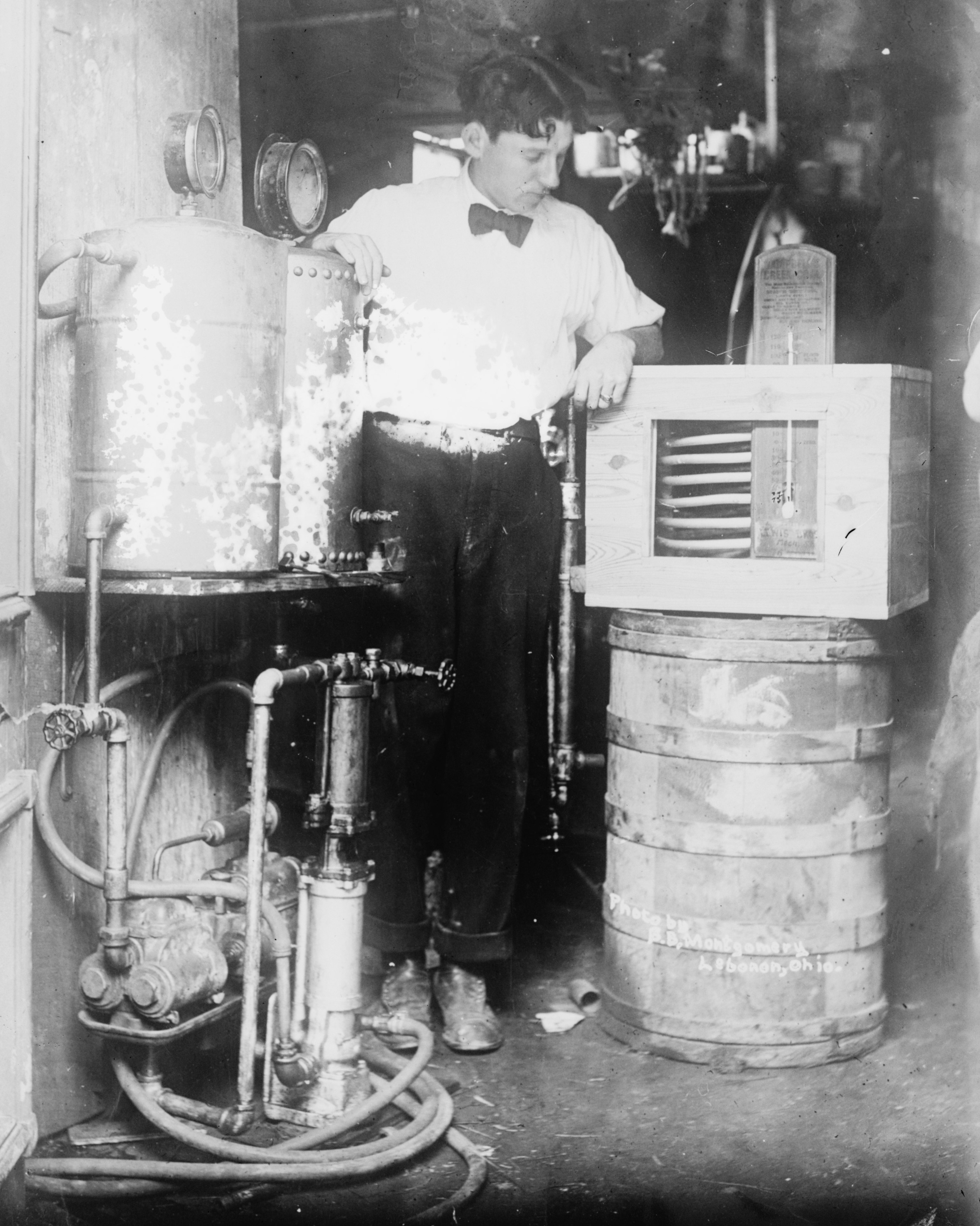 Title: Frank Andrews and his ice machine Abstract/medium: 1 negative : glass ; 5 x 7 in. or smaller.